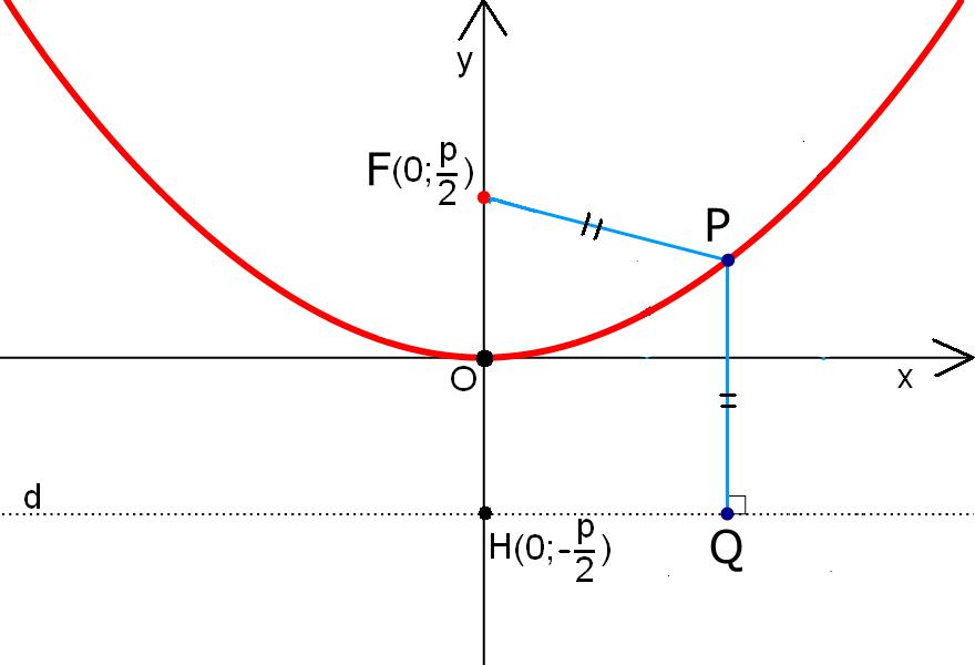 simple Parabola